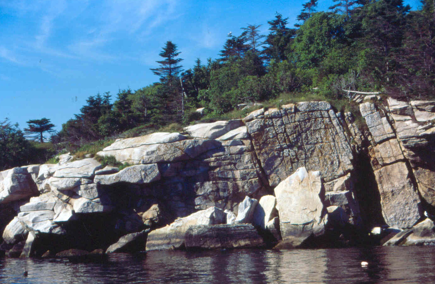 Ragged Island, Harpswell, Maine.